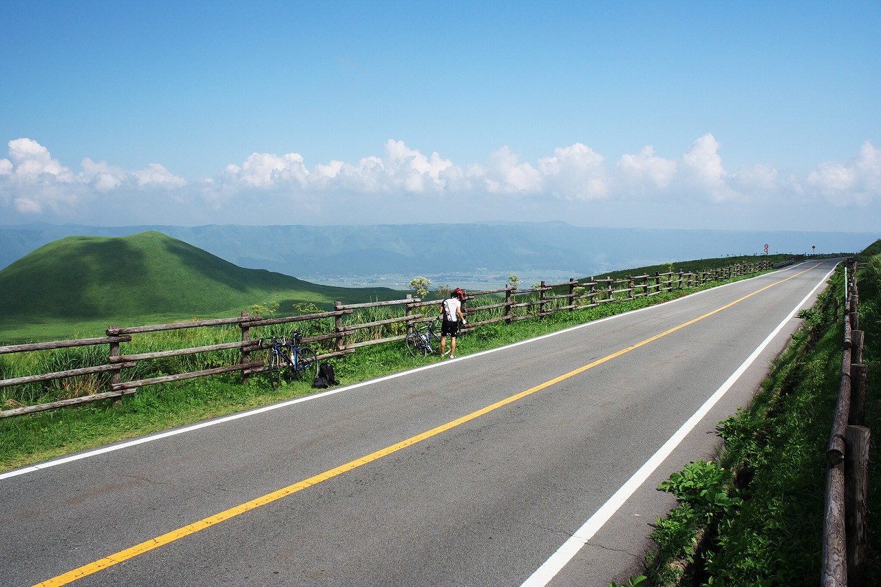 The Kumamoto Prefectural Road Route 111 in Aso City. Komezuka can be seen on the bottom left